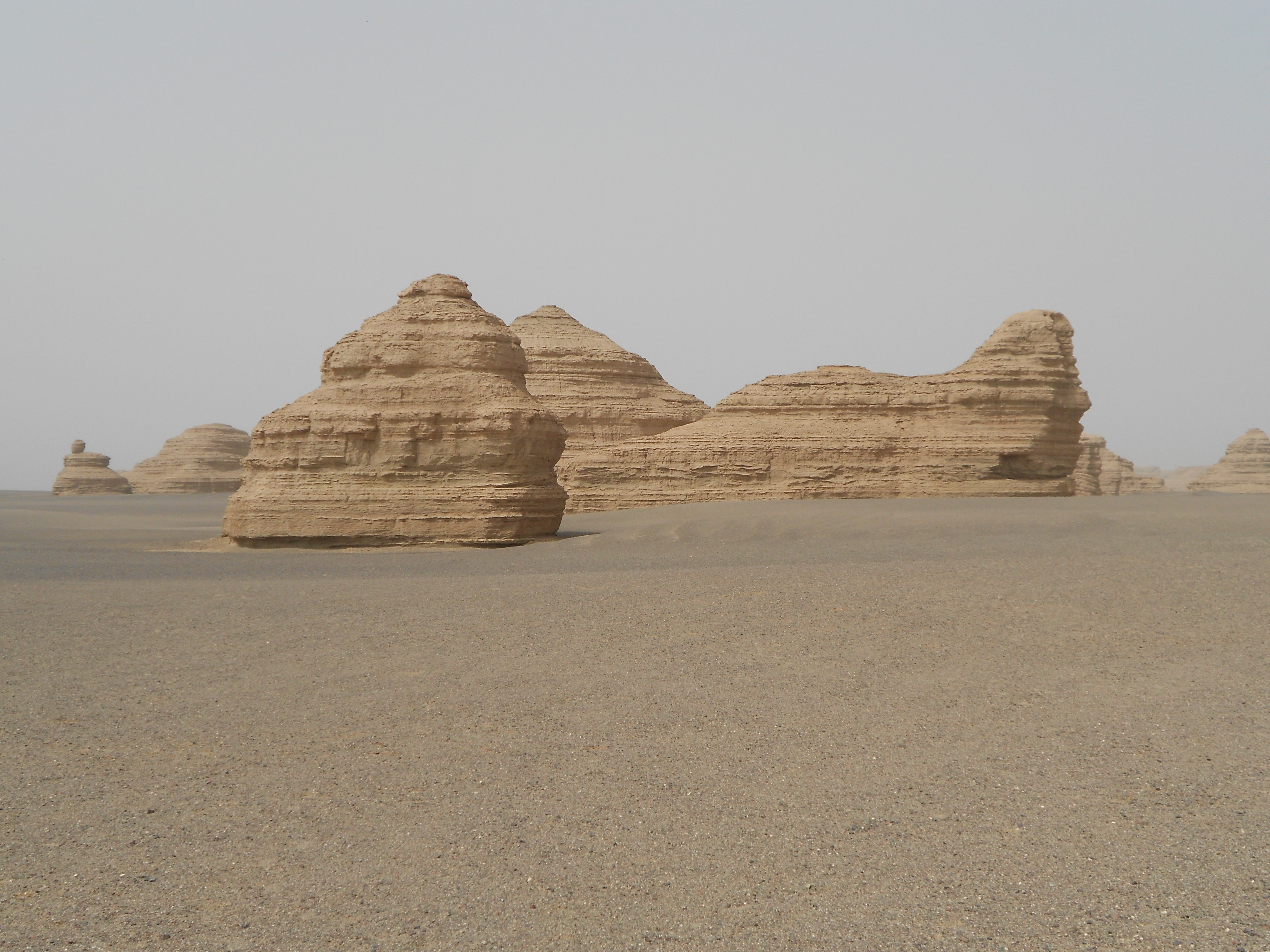 Desert landscape and rock formations in Dunhuang Yardang National Geopark — in Xinjiang, western China.